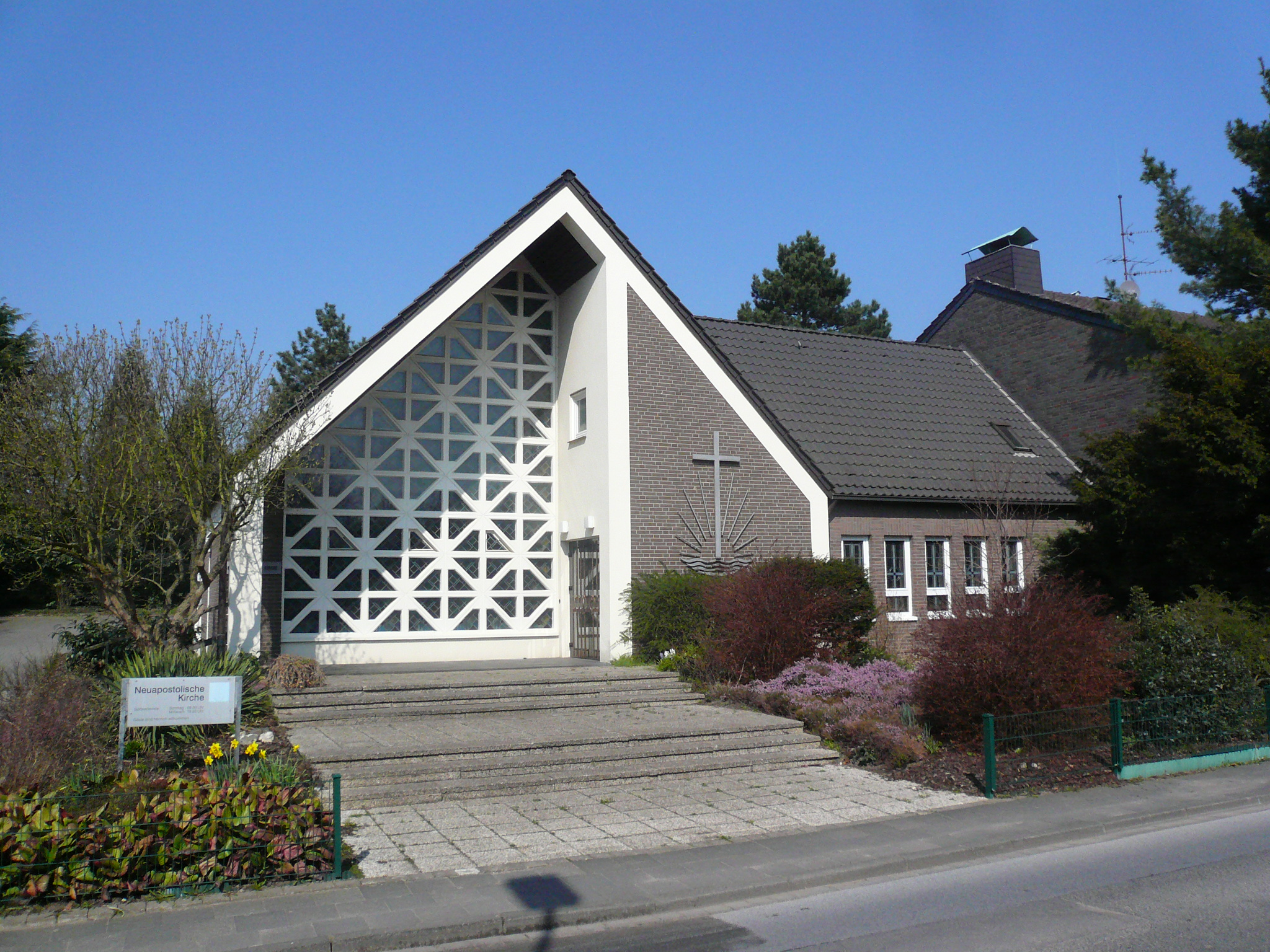 New Apostolic church in Meerbusch, Germany